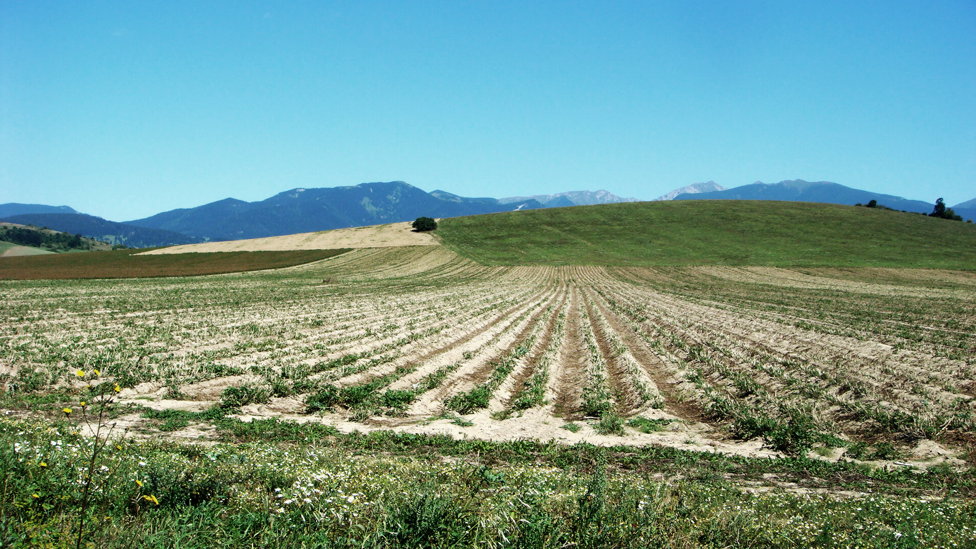 Look at the peaks of West Tatras as seen in Liptov